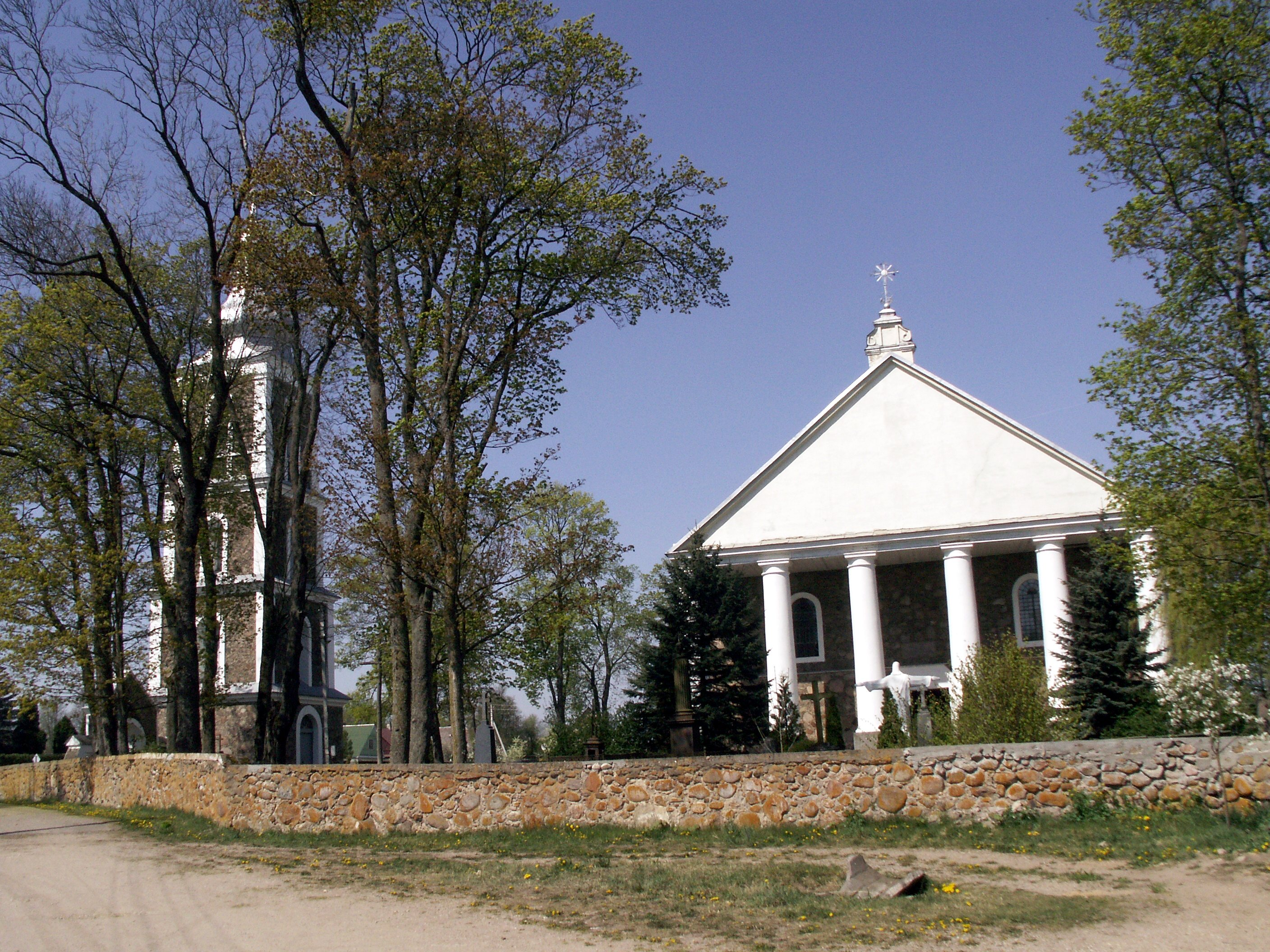 Eišiškės Churche, Šalčininkai district, Lithuania